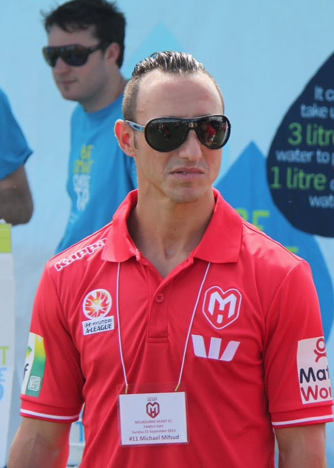 Photo was taken by me at the club's family day in 2013